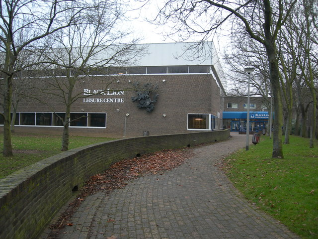 Black Lion Leisure Centre, Gillingham (2)